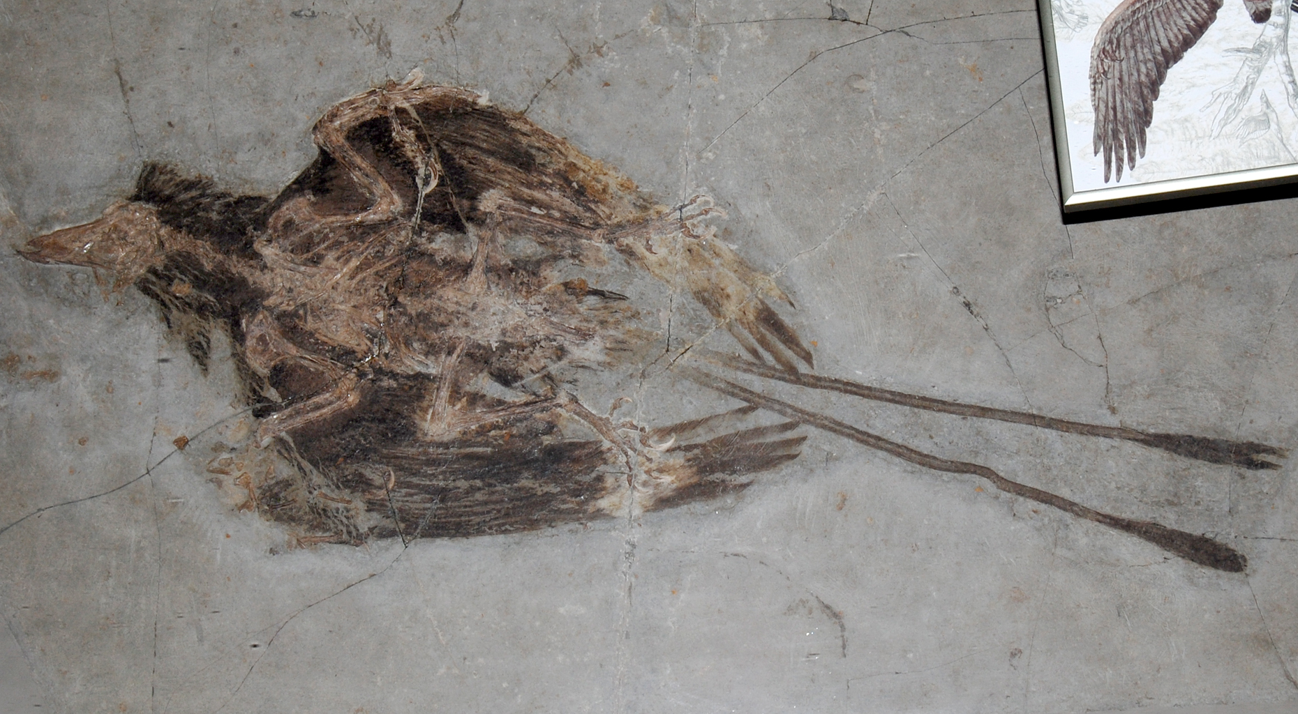 Confuciusornis sanctus, Naturhistorisches Museum Wien